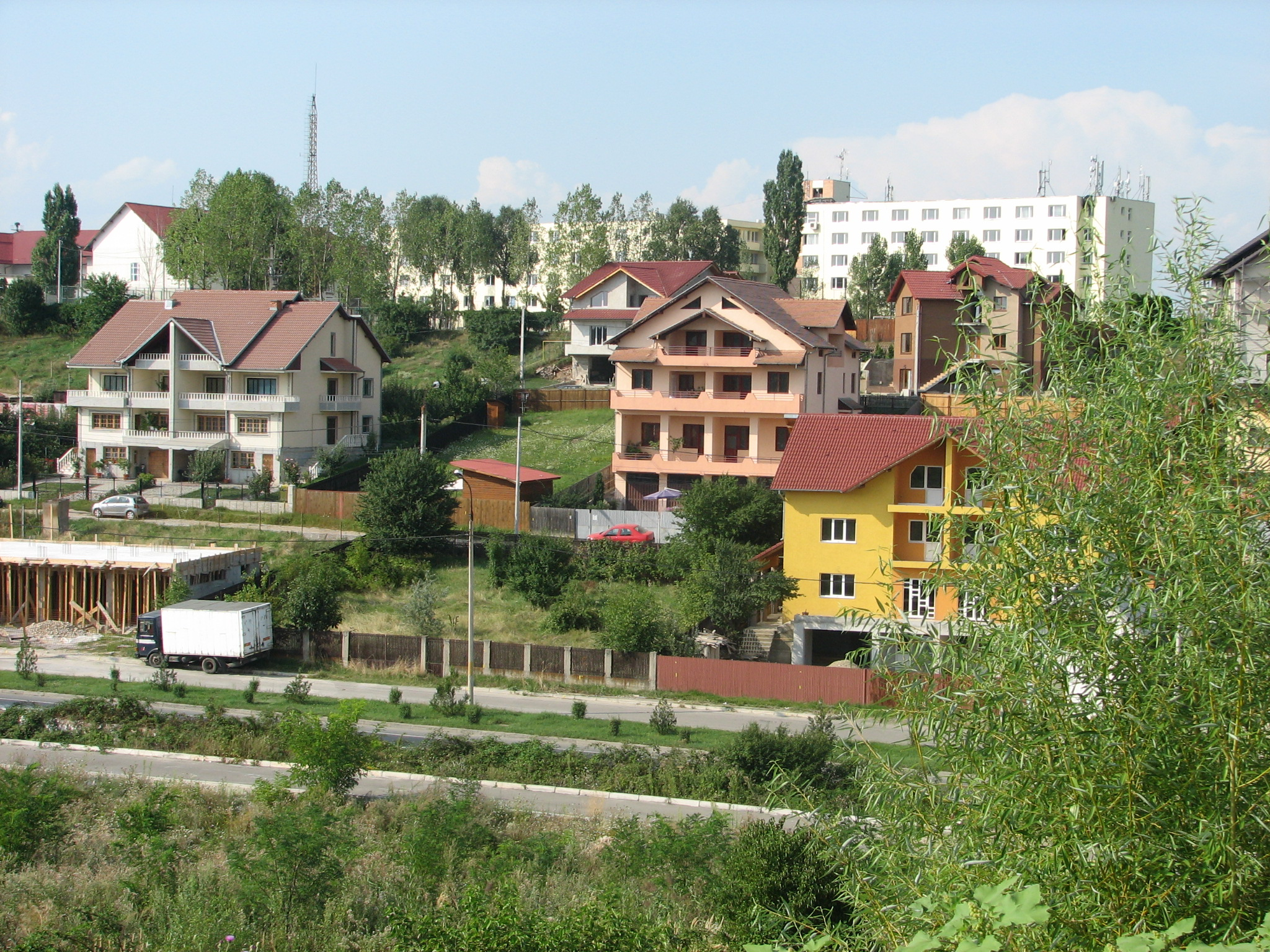 Post-communist suburbanization in the Pitesti, Romania